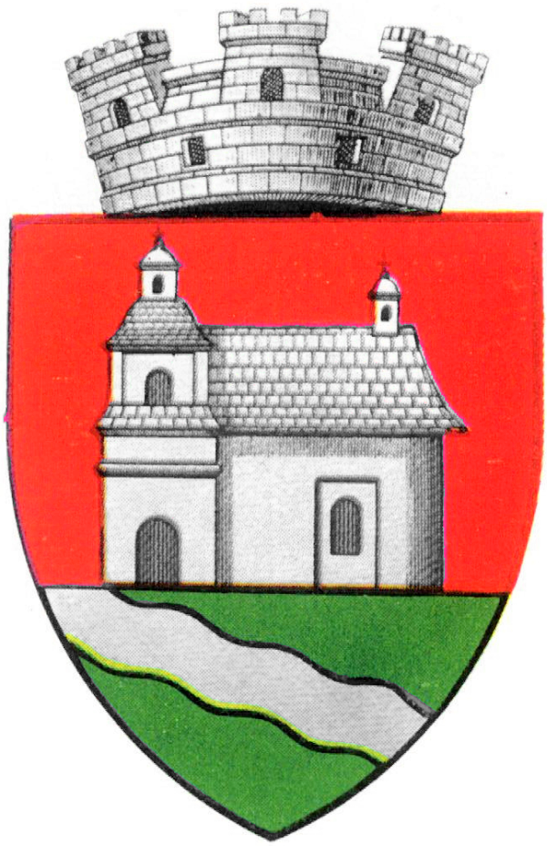 Interwar coat of arms of Rezina-Târg, Orhei County, Kingdom of Romania.